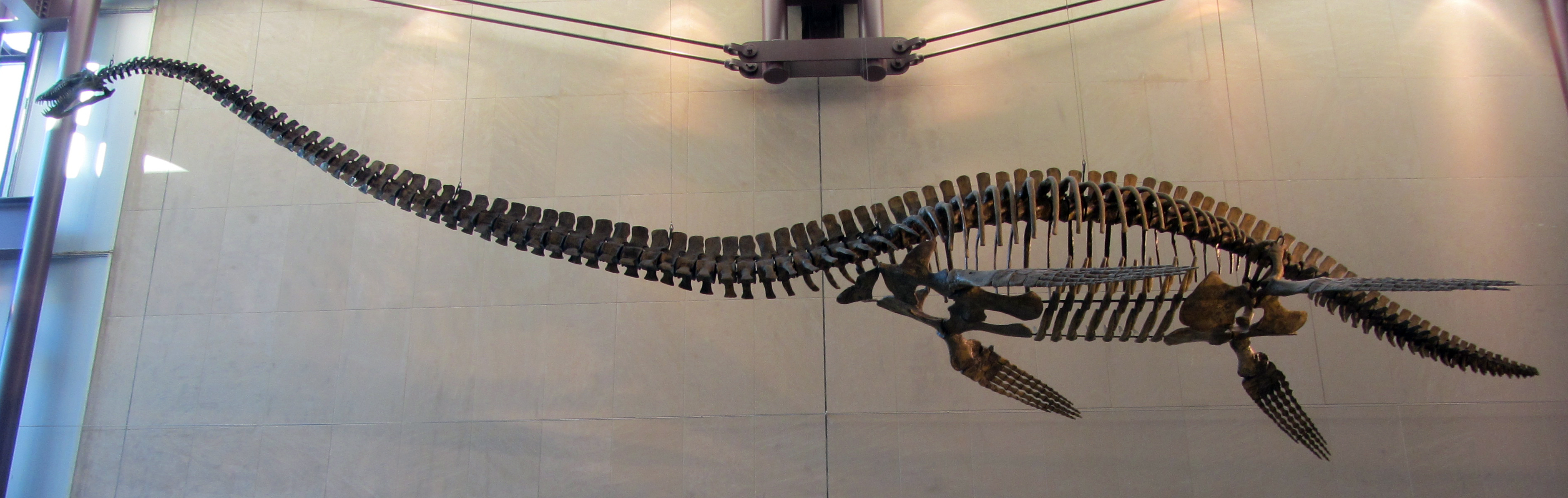 A 42-foot cast of a Elasmosaurus in the atrium of the Milwaukee Public Museum.